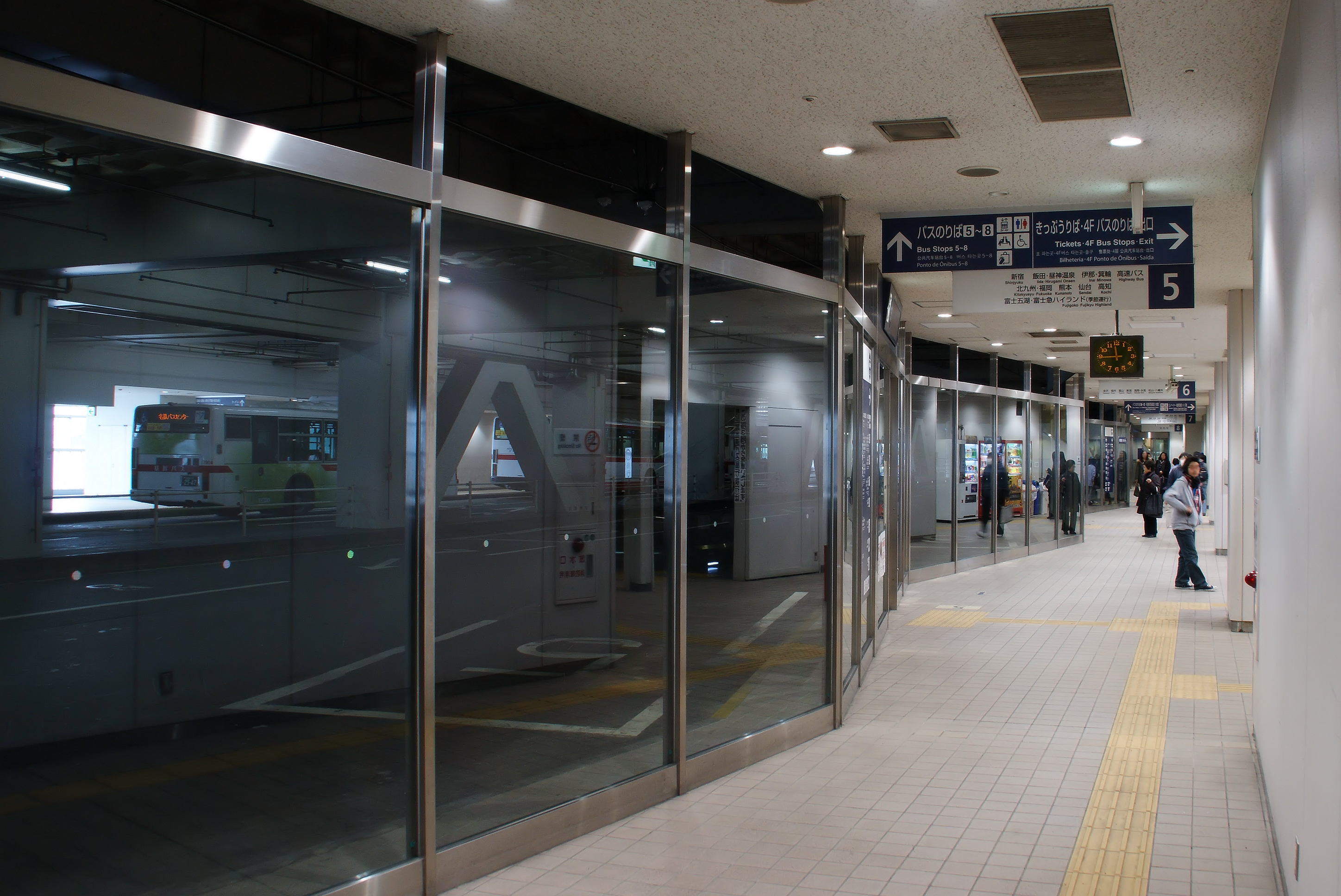 Meitetsu Bus Center.(Nakamura Ward, Nagoya City, Aichi Prefecture, Japan)